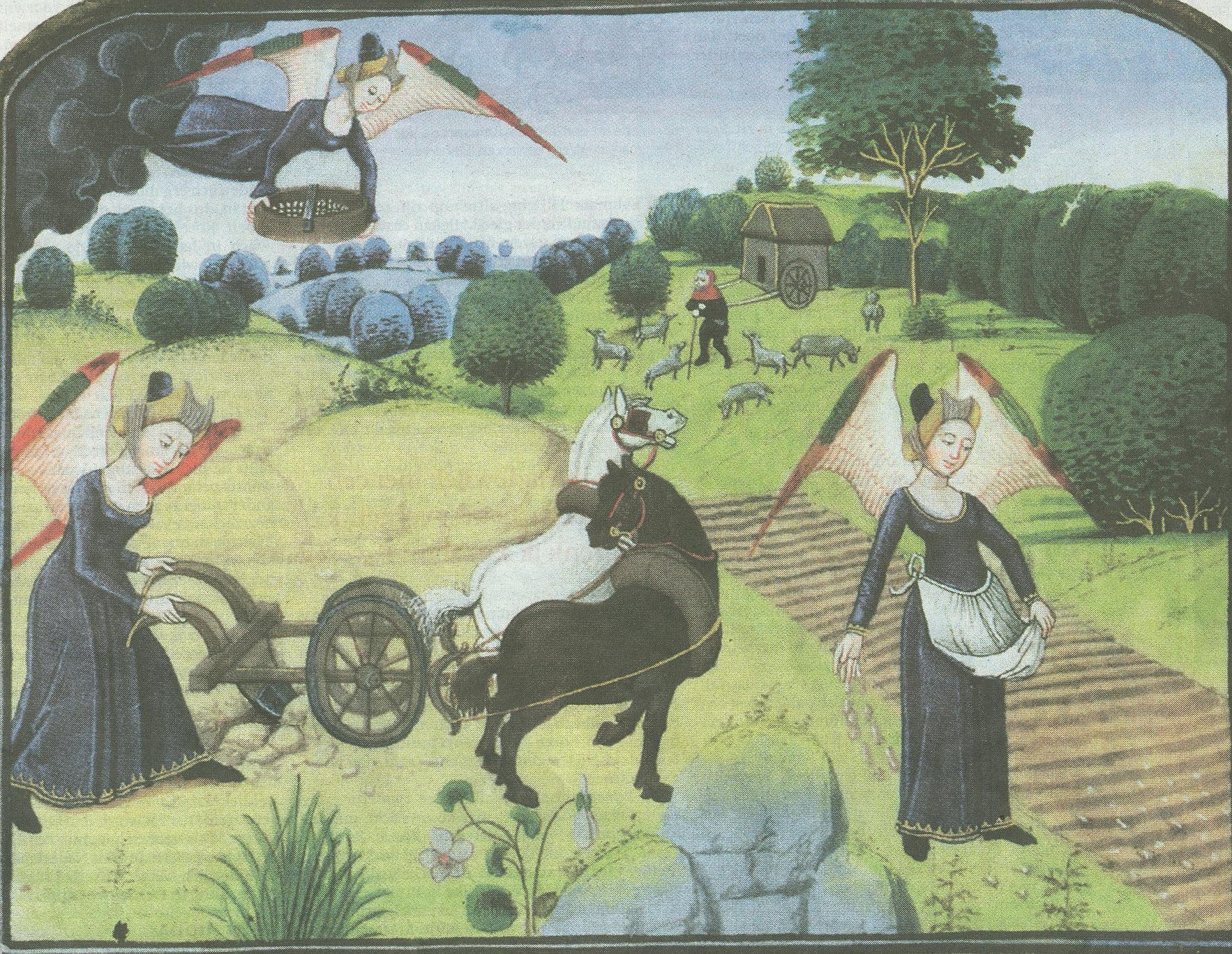 Miniature by Jean Miélot